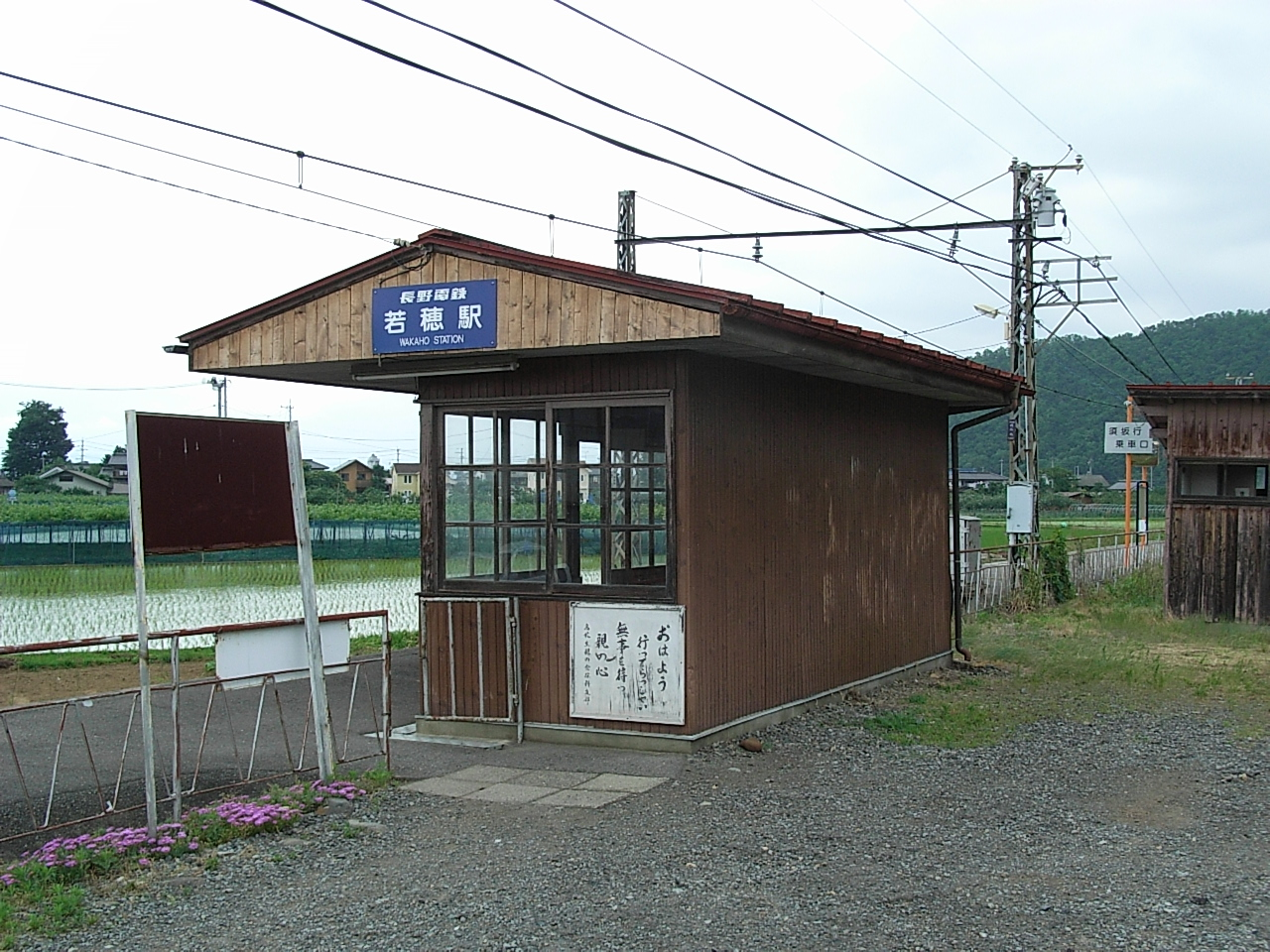 Wakaho Station on Nagano Electric Railway Yashiro Line. (7468-2,Wakahowatauchi,Nagano-shi,Nagano-ken,JAPAN)